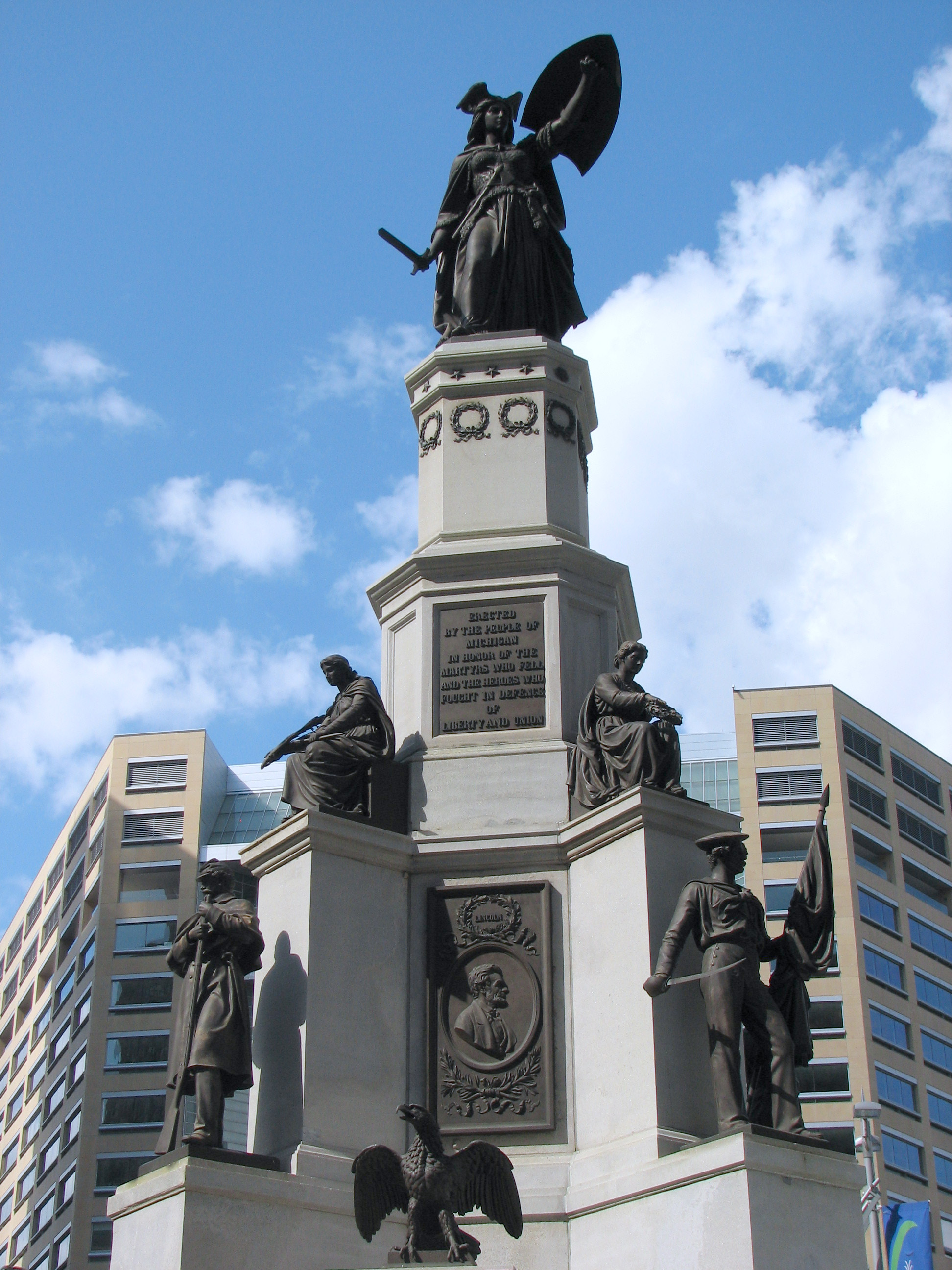 Michigan Soldiers and Sailors Monument in Campus Martius